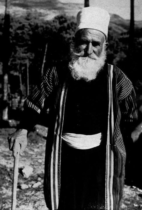 Druze Man of Lebanon This striking Druze is a sheikh of a village in the mountains near Beit-Eddine. The clothes he wears today are similar in many ways to those worn by his ancestors a number of generations back. His outer garment is the striped wool abba. Under it he wears a black wool shirt cut in the old style with a narrow band collar. His trousers are the sherwal made of the black wool cloth, also. The finest sherwals are four or five times as wide as the wearer but fit is easily achieved with a drawstring at the waist. Outside seams often are piped with rows of silk braid which end in graceful arabesque designs appliqued by the tailor's practiced hands. His tarboush is wrapped with a white scarf which denotes his stature as a Druze sheikh. He wears a hand-woven scarf around his waist. A black abaya is worn over this costume as added protection against the cold winters in the mountains. Sometimes a Druze man wears a long black gambaz instead of a shirt and sherwal. In summer he might wear a severely cut cream colored or black silk gambaz. The Druze who strictly keeps his faith and who wears the traditional garments, dresses only in hand woven materials. On the average of one out of five villages has its own weaver. A small group of Druzes who lead self-sacrificing lives and who are known as "the blues" dress in hand-dyed and hand-woven blue garments.